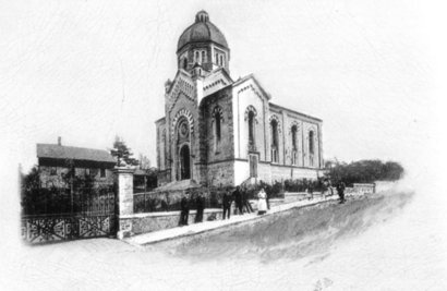 Synagogue in Biała